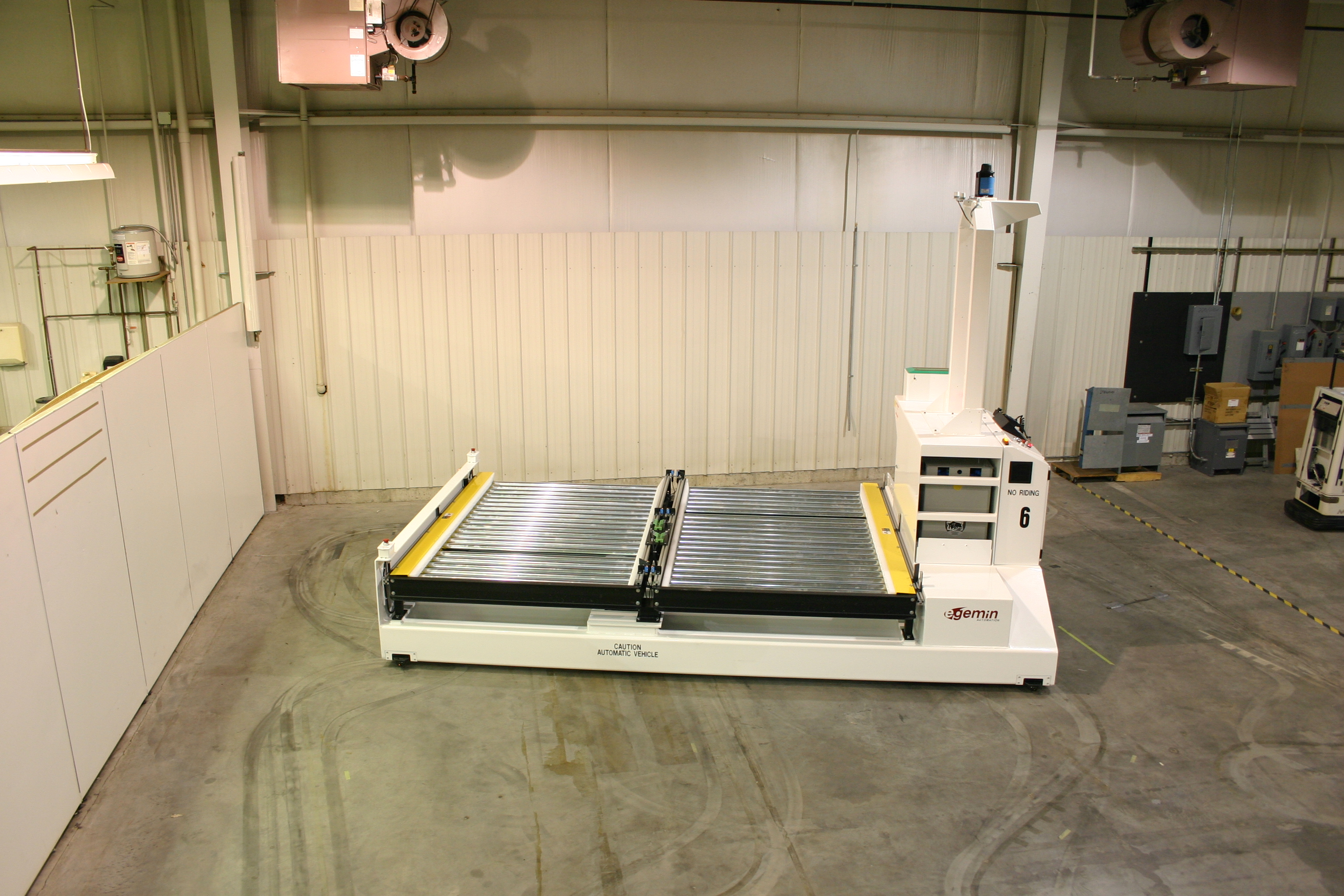 Unitload AGVs can carry raw materials around a production environment. Courtesy of Egemin Automation Inc.